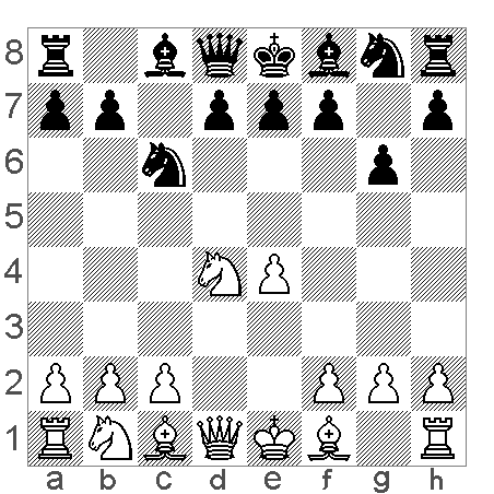 chess diagram Early Dragon in Sicilian defence Source: CBlight + my processing